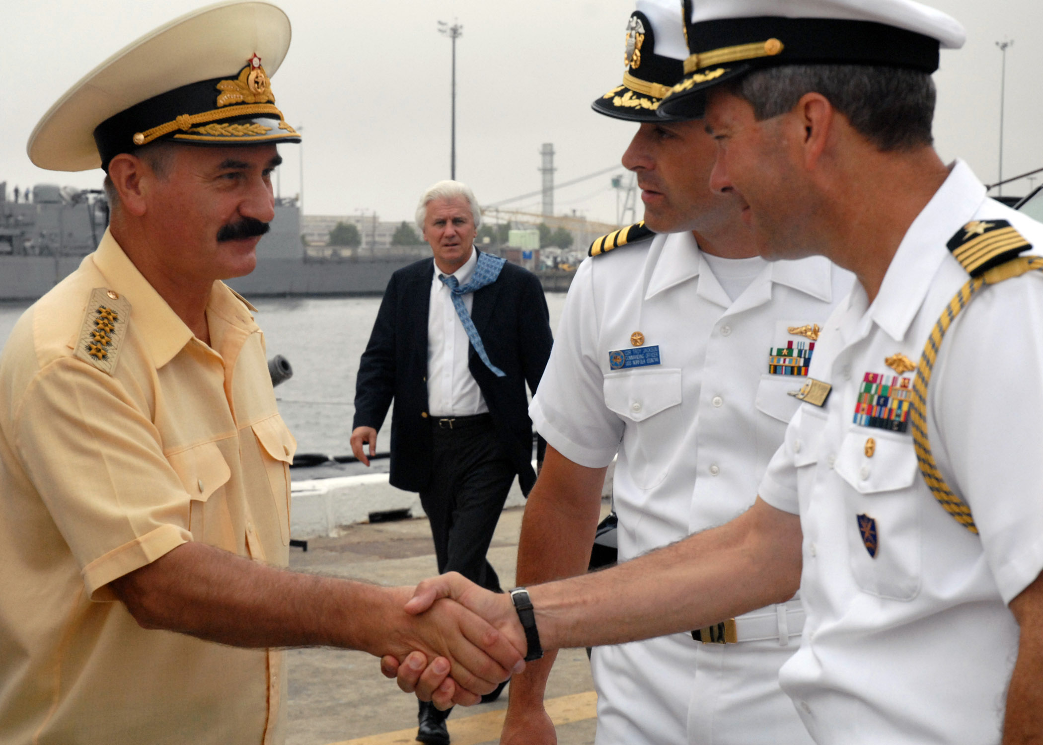 NORFOLK, Va. (Aug. 22, 2007) - Capt. Michael McLaughlin, Submarine Force Chief of Staff, greets Adm. Vladimir Masorin, commander in chief of the Russian Navy, before a tour aboard Norfolk. The Los Angeles-class fast-attack submarine was one of many stops during Masorin's visit as an official guest of the Chief of Naval Operations. U.S. Navy photo by Mass Communication Specialist 1st Class Christina M. Shaw (RELEASED)